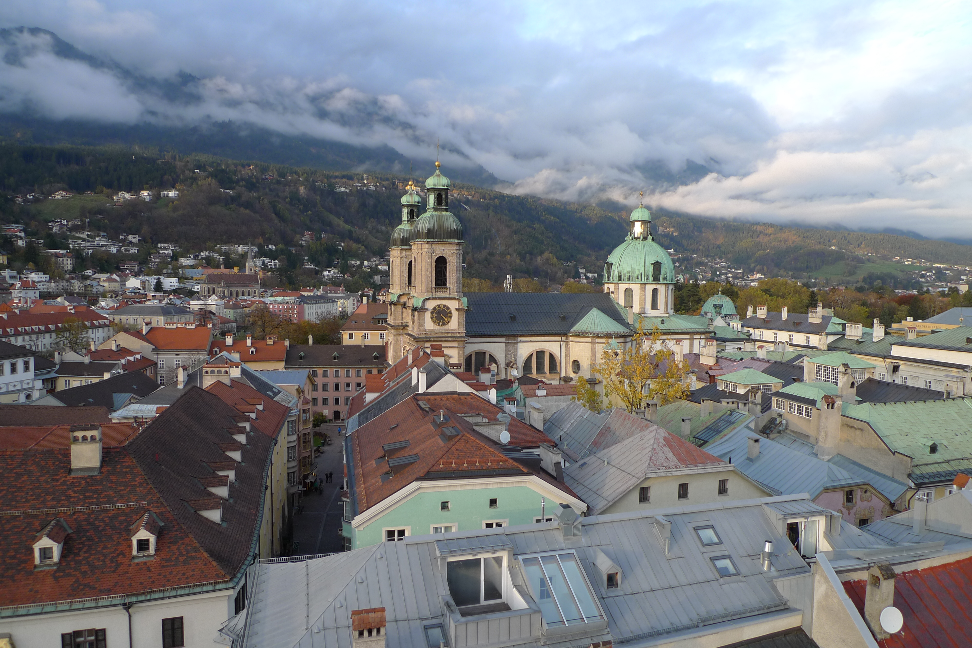 View from the tower of the old townhall to the Cathedral of Innsbruck, Innsbruck, Tyrol, Austria